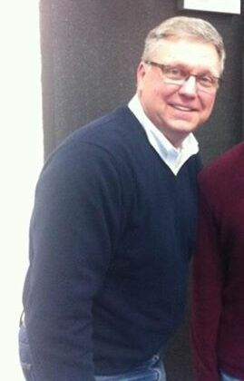 Depicted person: Brian Doyle – American baseball player